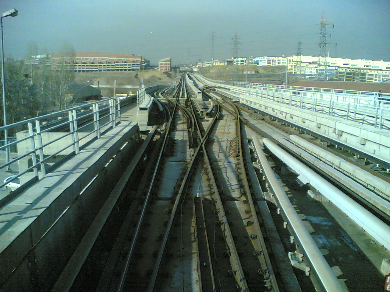 Rails (Ankara Metro)